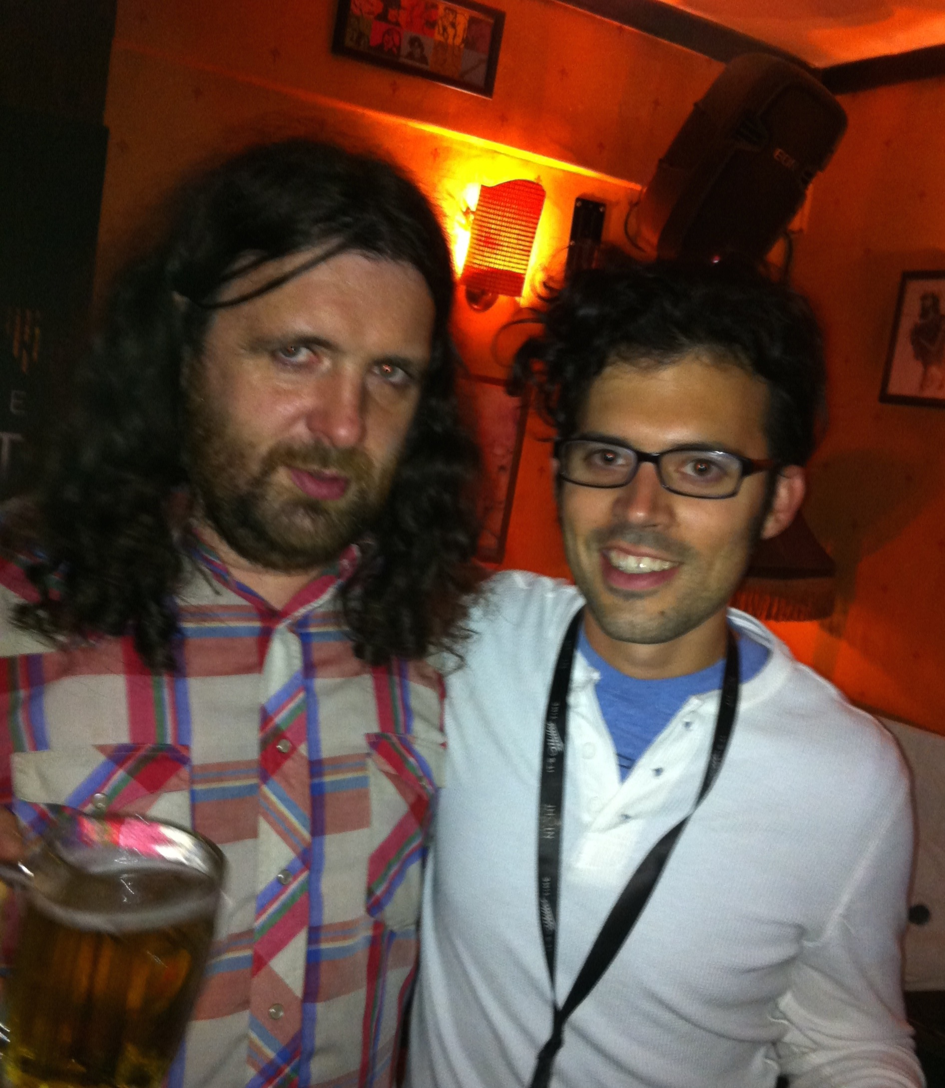 Naytronix and DJ Fitz hanging in Istanbul